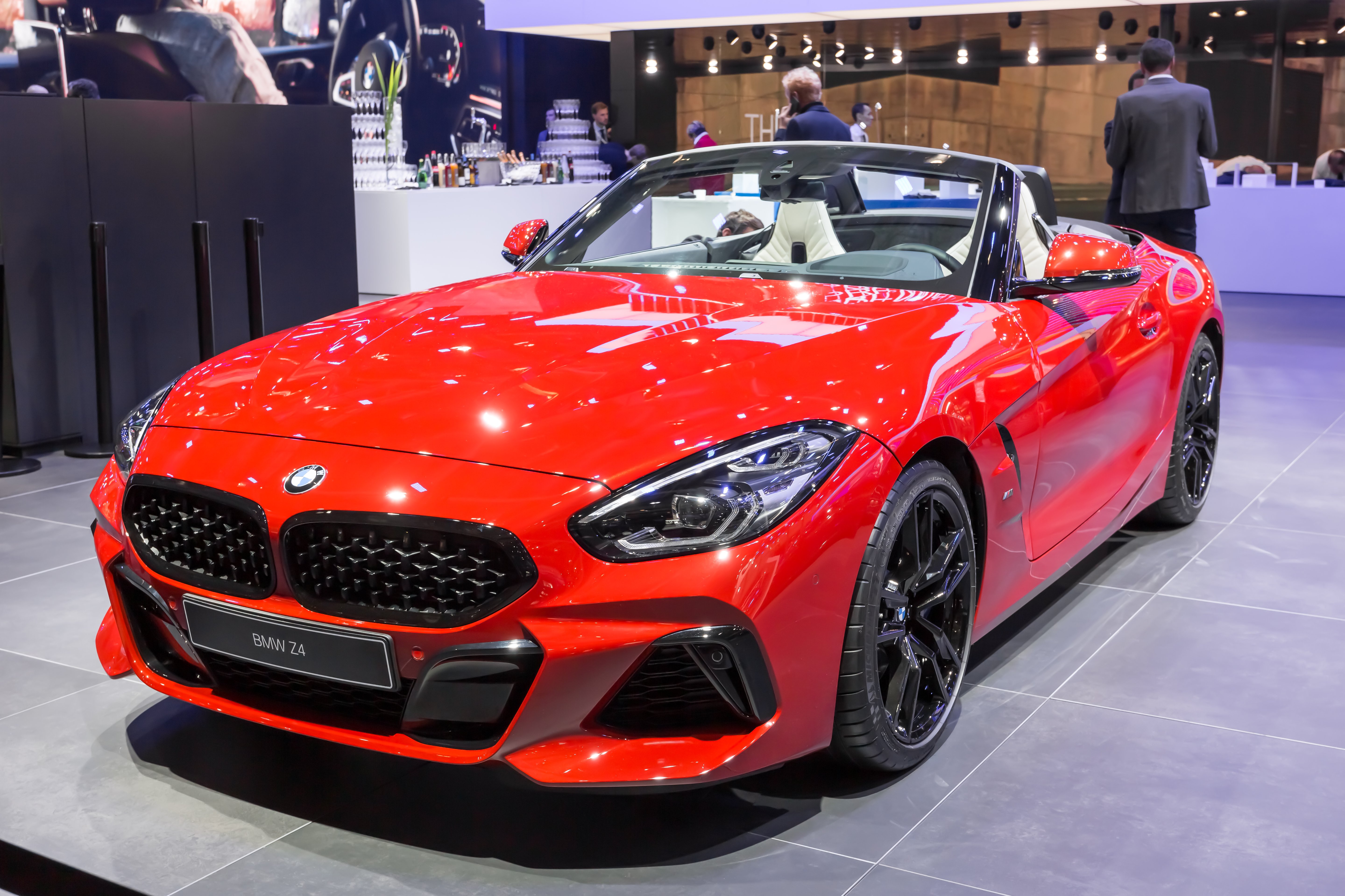 BMW Z4, Mondial Paris Motor Show 2018